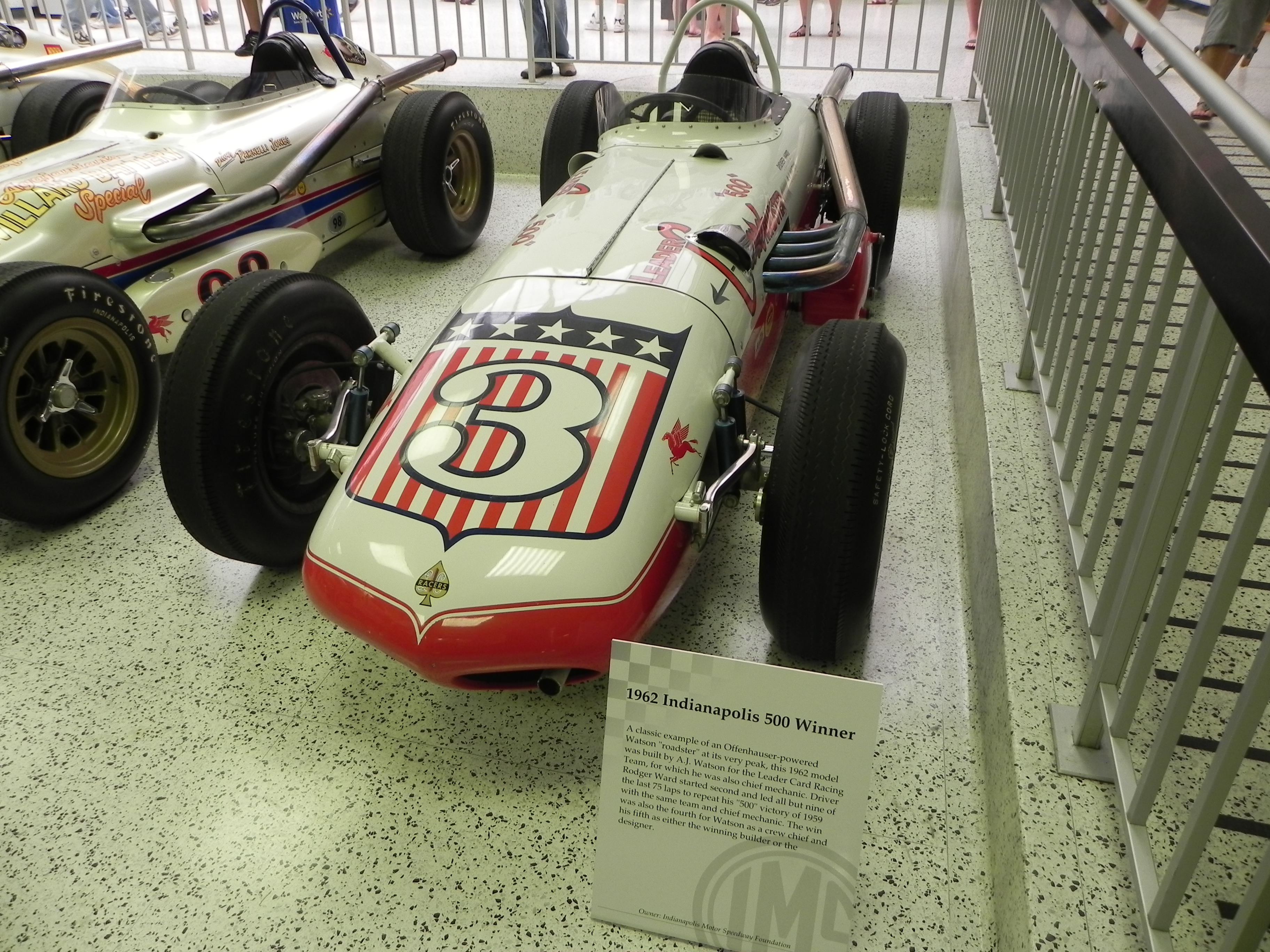 Image of the winning car of the 1962 Indianapolis 500 (Rodger Ward). Photo was taken at the Indianapolis Motor Speedway Hall of Fame Museum, during the month of May 2011, at the 100th Anniversary "Ultimate Indianapolis 500 Winning Car Collection."